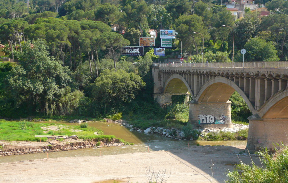 Mogent and Congost rivers joining to form Besòs river, in Montornés del Vallès and Montmeló, Vallès Oriental, Catalonia.